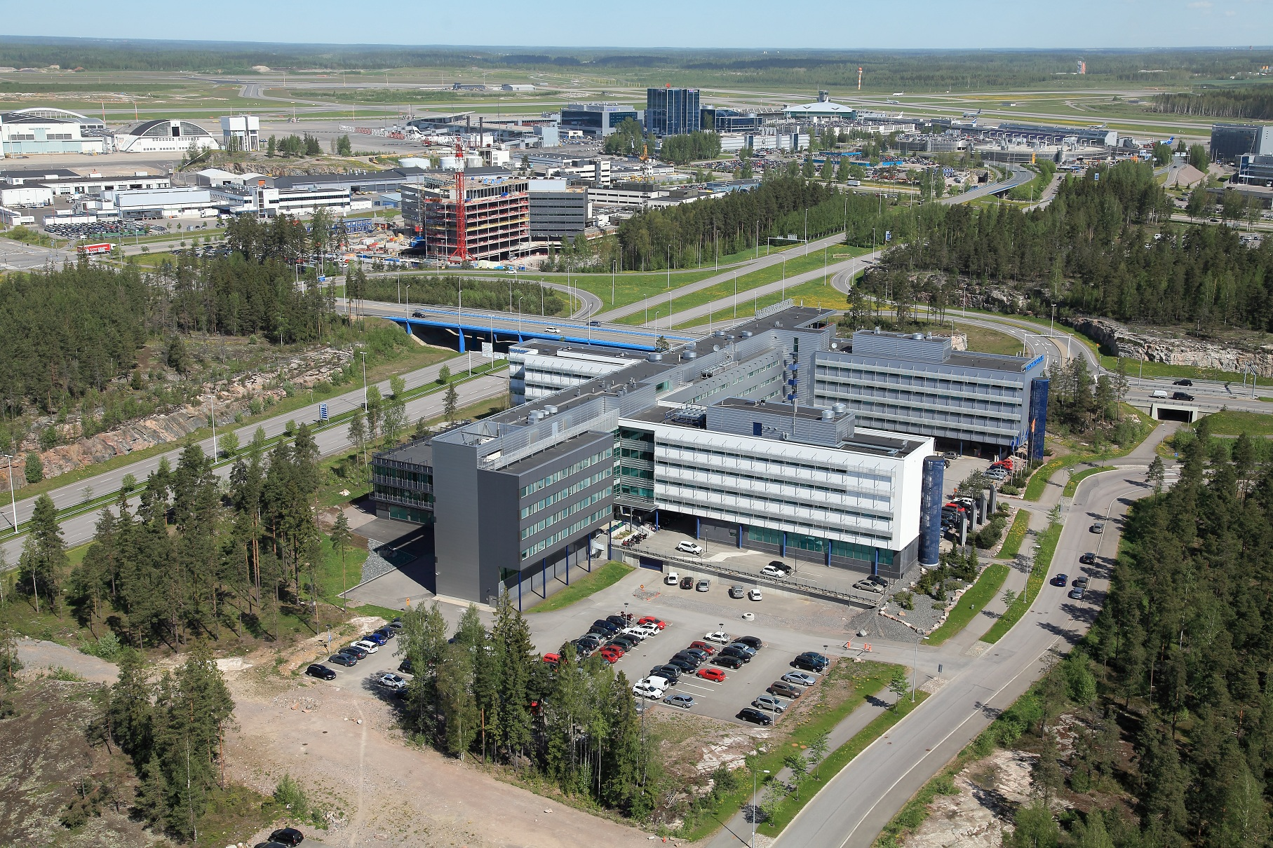 Technopolis Helsinki-Vantaa from air